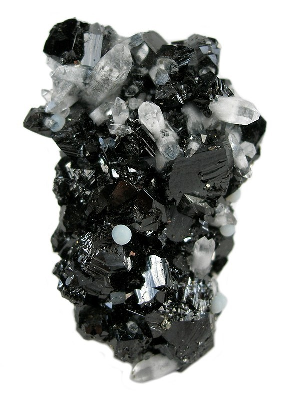 Aheylite, Cassiterite Locality: Huanuni mine, Huanuni, Dalence Province, Oruro Department, Bolivia (Locality at ) Size: 3.5 x 2.3 x 0.8 cm. Pastel blue, translucent, spheres to .2 cm across of the very rare phosphate, aheylite, are perched on very lustrous crystals of cassiterite, to .6 cm across, along with colorless, quartz crystals. Aheylite, a hydrated, iron, aluminum, phosphate. Ex. Brian Kosnar.